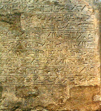 Sandstone Stela (Stone Slab) of the Egyptian Viceroy of Kush, Merymose ~1400 BC 18th Dynasty) - British Museum